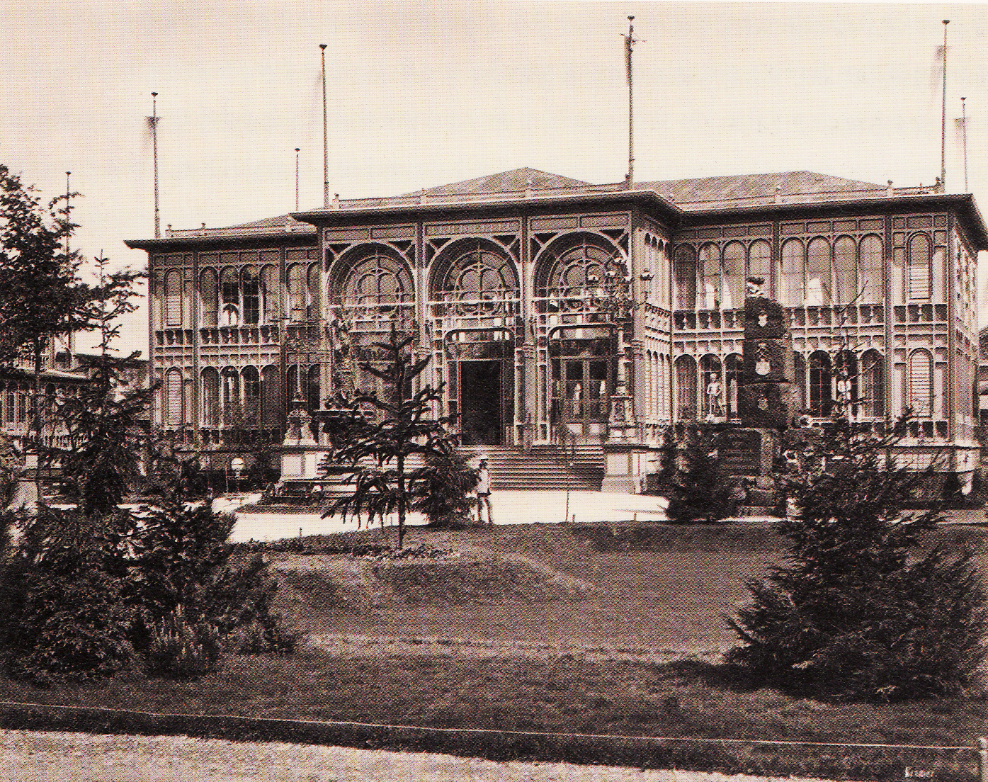 Pavillon of the Krupp Company, Expo 1873